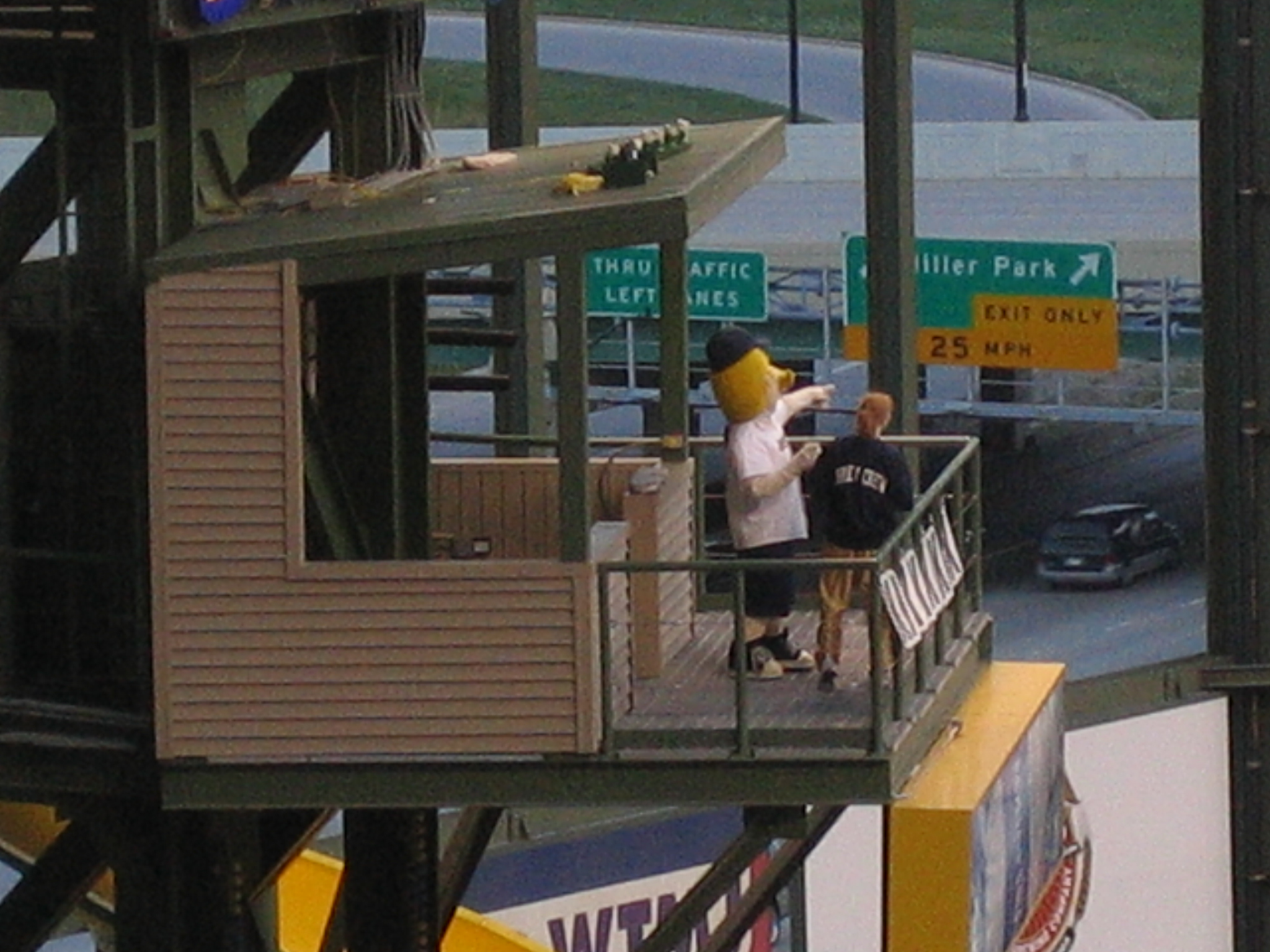 Bernie Brewer, mascot for the Milwaukee Brewers, hanging out at his dugout.